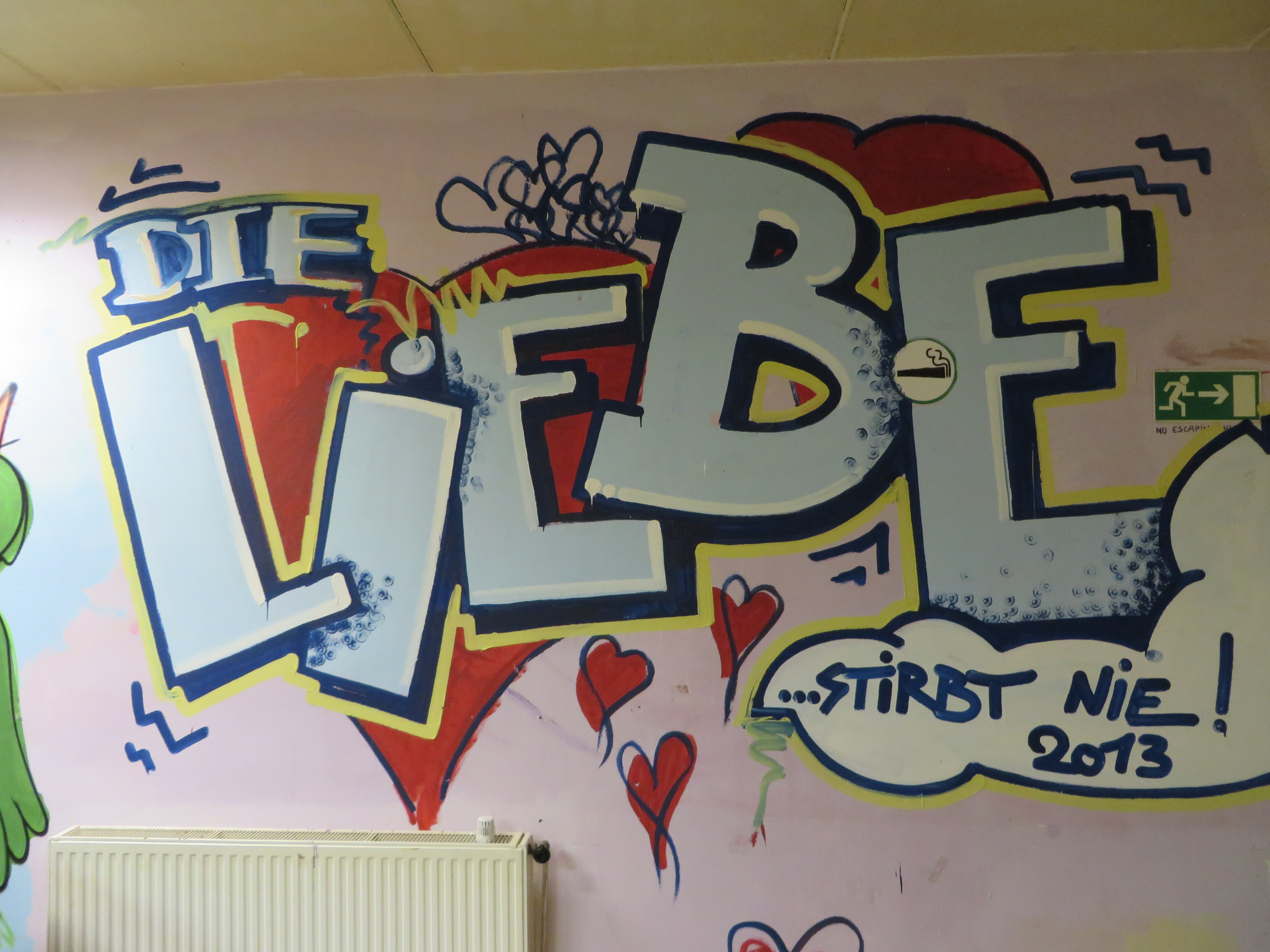 Graffiti in social center Trotz Allem (in spite of everything) in Witten: Love never dies 2013